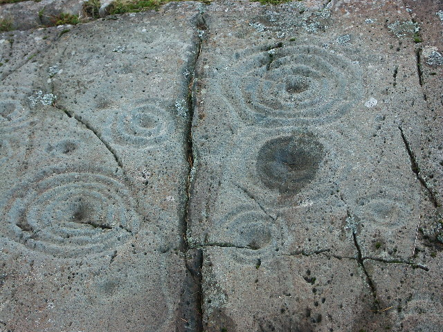 Cup and Ring markings on inscribed stone, Cairnbaan, Argyll